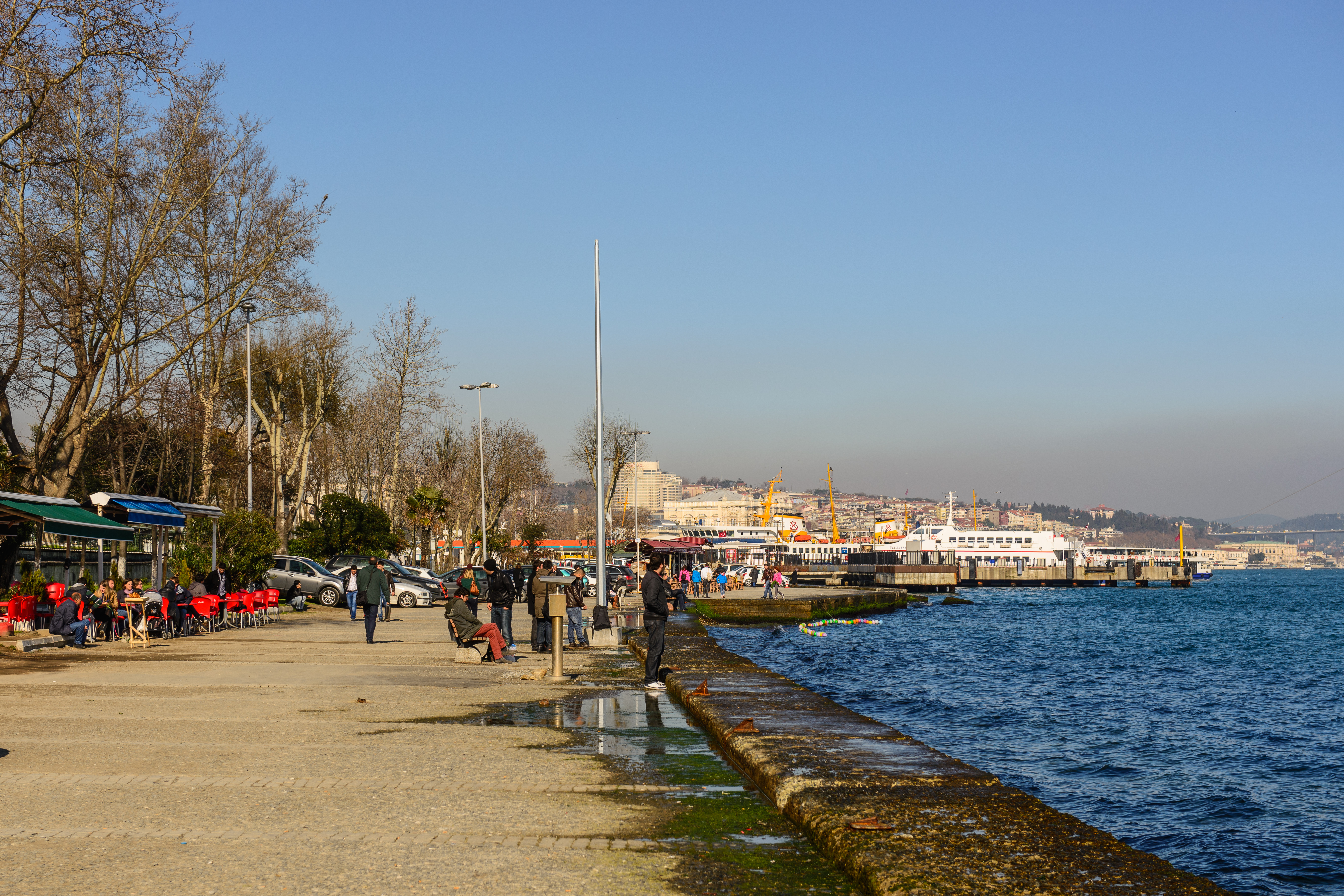 Kabataş, Beyoğlu municipality (belediye) in Istanbul, Turkey. In the background Kabataş İskelesi (pier).